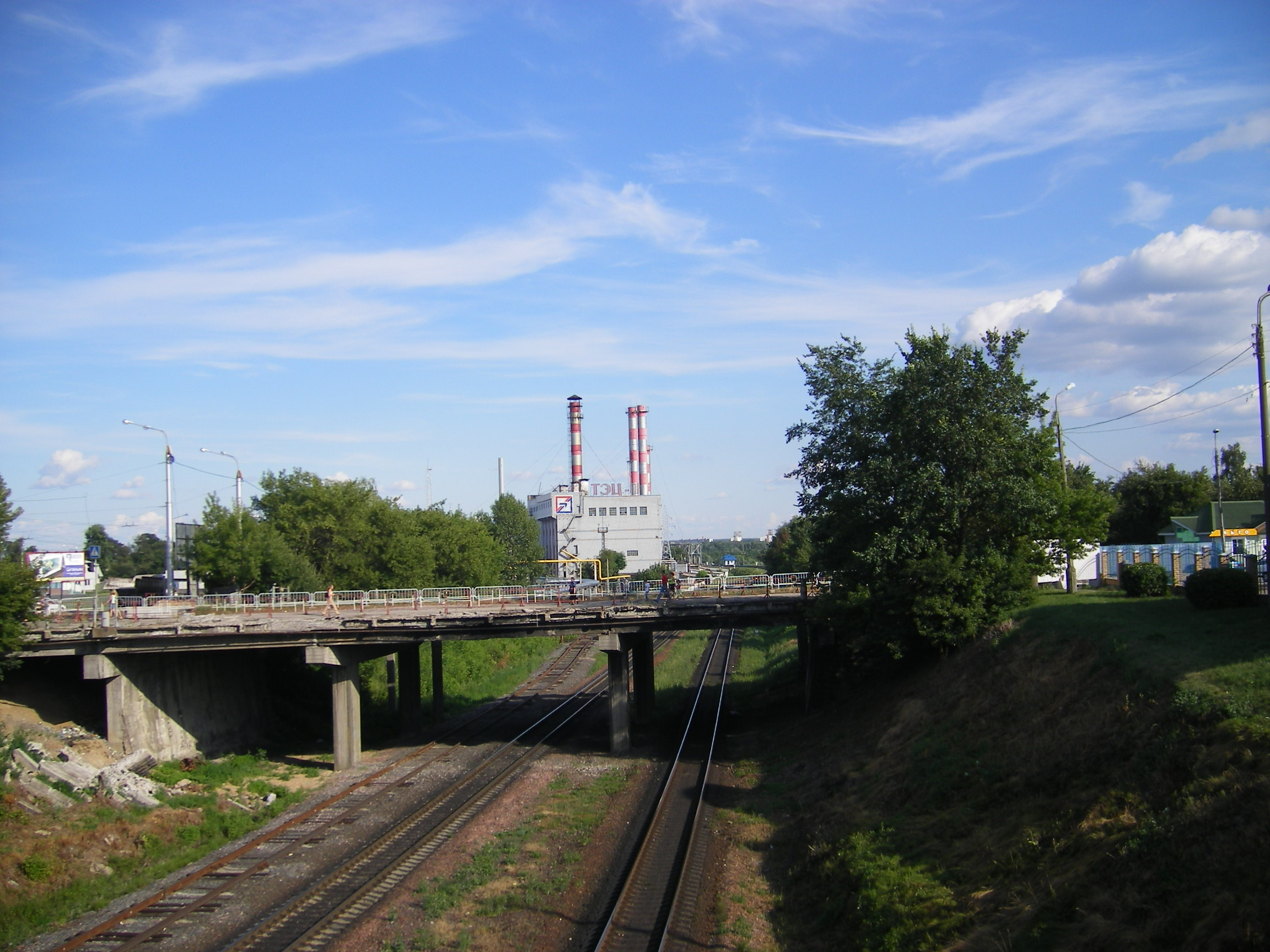 Power Plant in Homel (TEC-1)